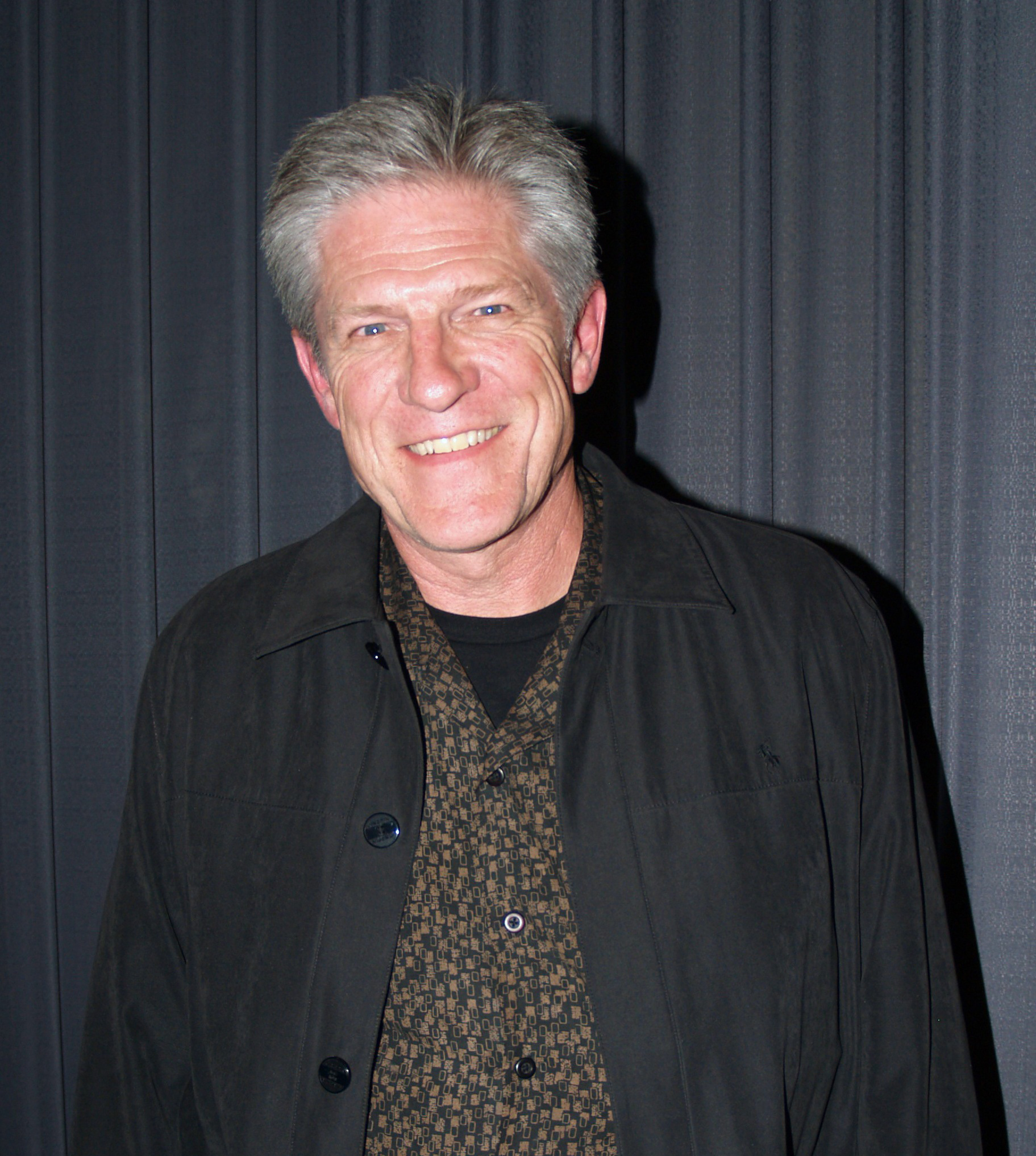 Oscar-nominated animator/director Bill Kroyer following a September 16, 2013 history of computer animation lecture by animator Tom Sito, at the SVA Theatre, which is part of Sito's alma mater, Manhattan's School of Visual Arts. This photo was created by Luigi Novi. It is not in the public domain, and use of this file outside of the licensing terms is a copyright violation.